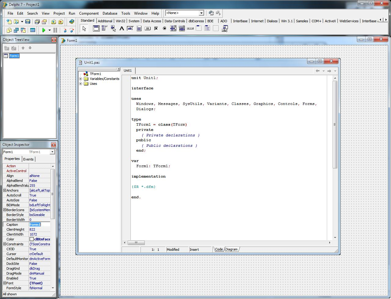 A screenshot of the Delphi 7 environment.